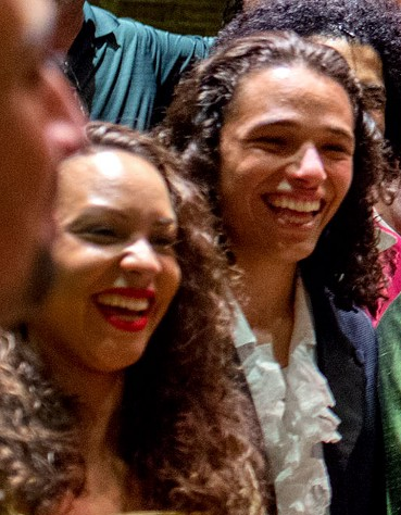 Verbatim from source: “The President greets the cast and crew of ‘Hamilton’ after seeing the play with his daughters at the Richard Rodgers Theatre in New York City.” (Official White House Photo by Pete Souza)